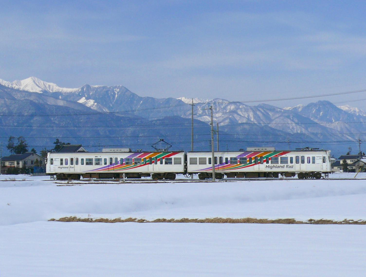 A Matsumoto Electric Railway 3000 series EMU on the Kamikochi Line near Niimura Station in Matsumoto, Nagano Prefecture, Japan